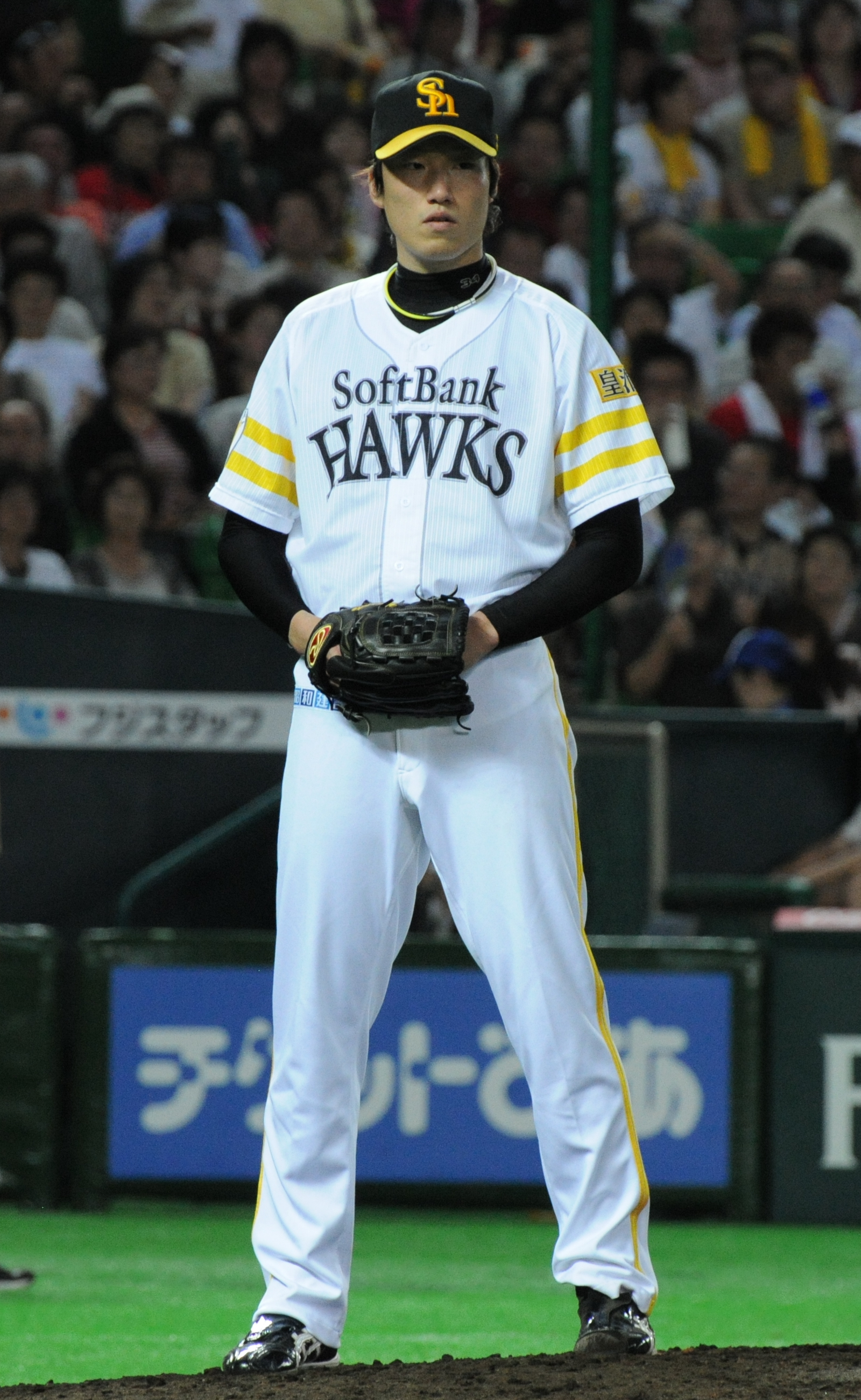 Hiroki Yamada, pitcher of the Fukuoka SoftBank Hawks, at Fukuoka Dome.